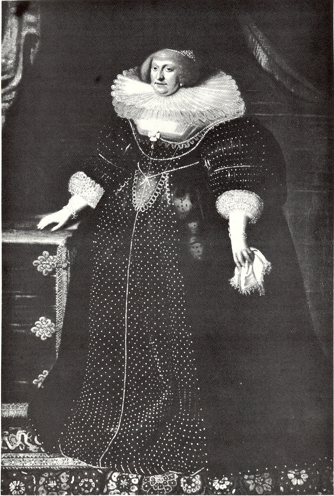 Portrait of Sophie Hedwig of Brunswick-Wolfenbüttel (1592-1642)